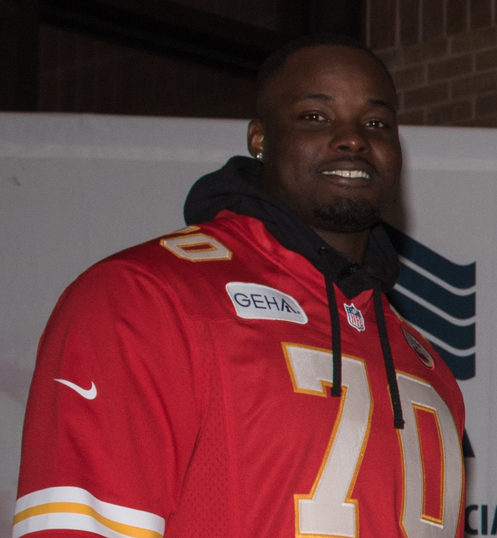 National Football League’s Kansas City Chiefs present game balls to U.S. Air Force Col. Seth Graham, the 509th Bomb Wing vice commander, and Lt. Col. Chard Larson, the 131st Aircraft Maintenance Squadron commander, during a visit to Whiteman Air Force Base, Missouri, Oct. 29, 2019. The game ball presentation symbolizes the importance of the relationship between the community partners with Whiteman AFB.